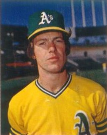 Image cropped from a baseball card of Matt Keough from the 1979 Hostess set.